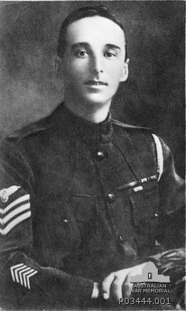 Studio portrait of 1580 Sergeant (Sgt) Frederick Hamilton (Fred) March, Divisional Signal Squadron, Anzac Mounted Divisional Headquarters. He enlisted on 6 September 1915 at Goulburn NSW and was discharged in Egypt at his own request on 6 August 1919. He was promoted to Sergeant for motor cycle duties on 1 April 1917. He won a number of medals for motorcycling with the Cairo Motor Cycle and Light Car Club between 1926 and 1927. He joined the Civil Service in the Sudan and was awarded the Empire Gallantry Medal in trying to save the local Governor from an assassination attempt. This medal was legitimately exchanged in 1940 for a George Cross. He was also awarded a George V MBE (Civil) and a Queen Elizabeth II Silver Jubilee Medal.